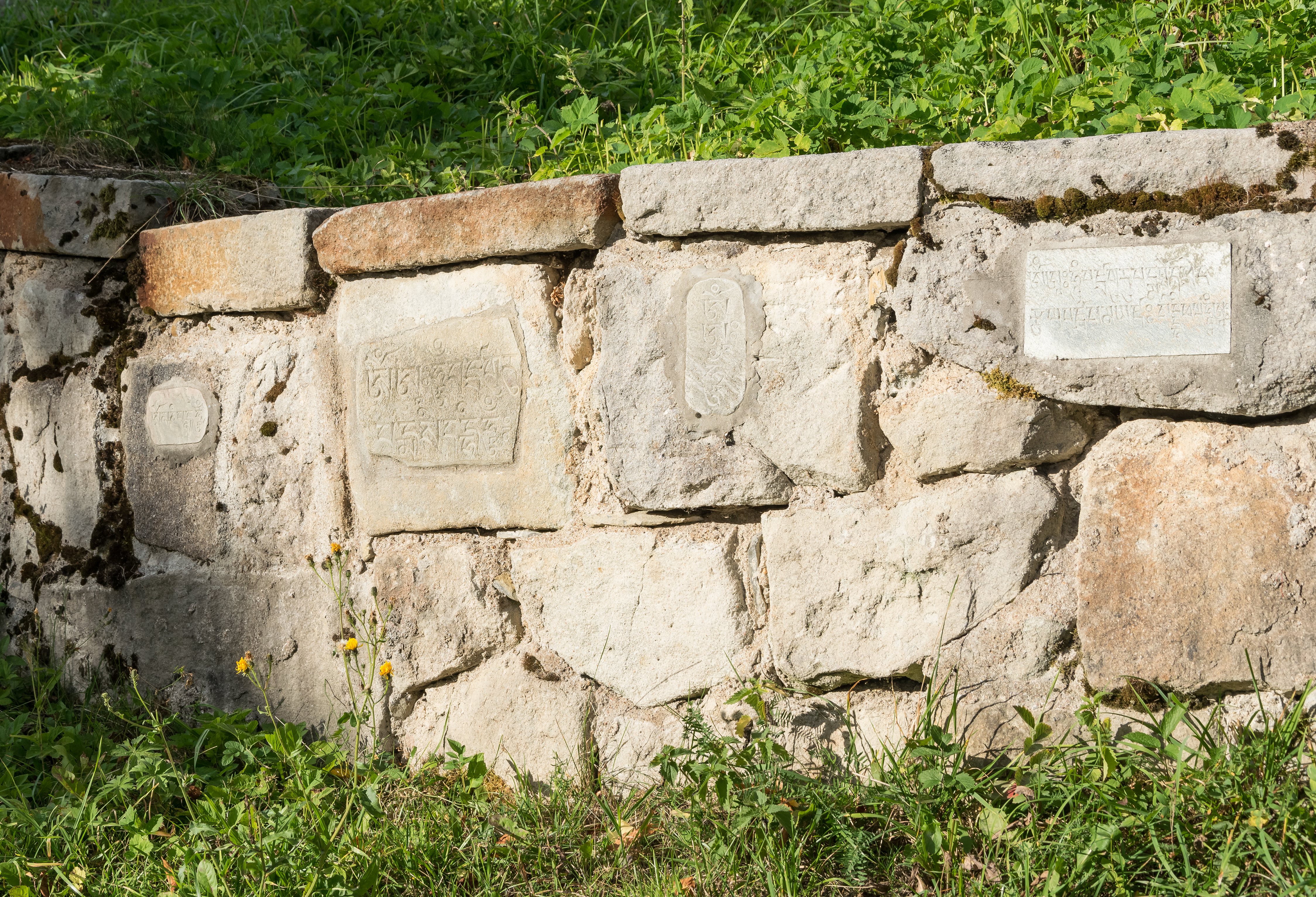 Gompa Drophan Ling in Darnków, Mani stones